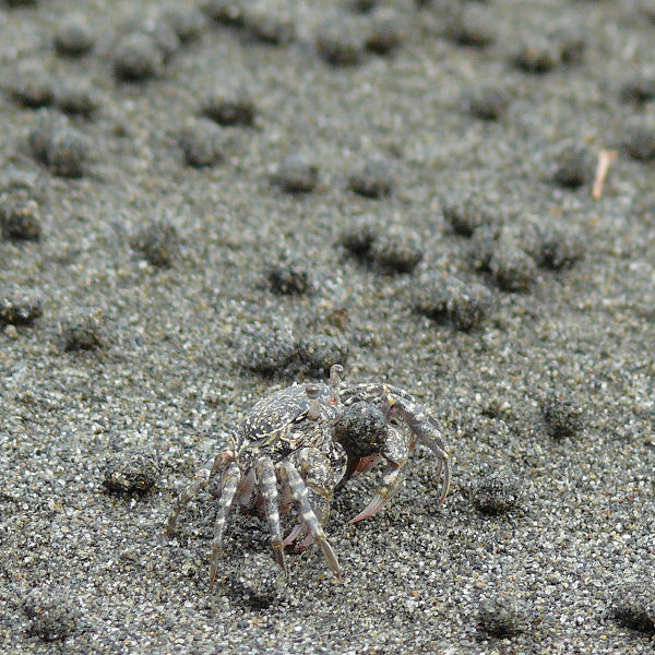 lives in mudflat. eating microorganism and makes many sand dumplings.